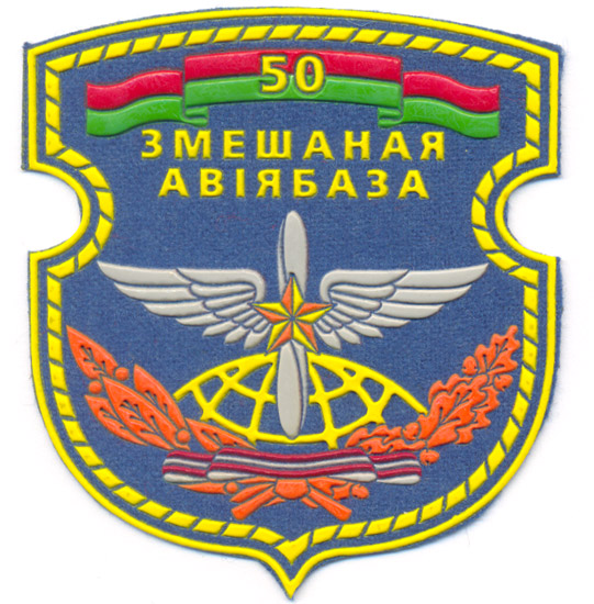 Patch of the 50th Mixed Base Belarus